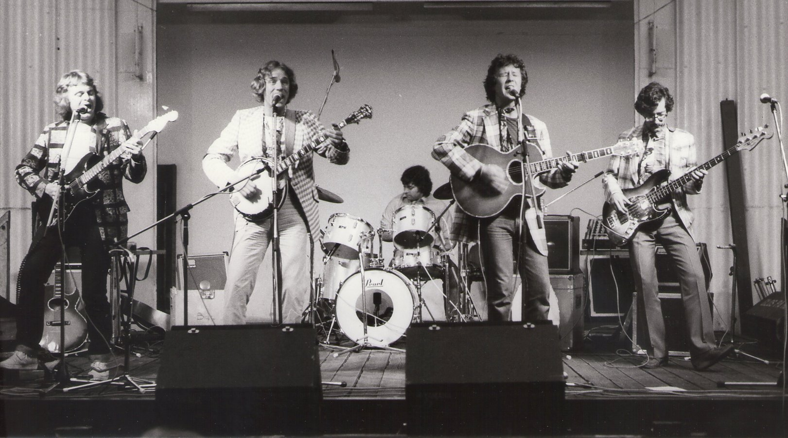 The Arizona Smoke Revue (UK electric folk/country group) on stage at Greenwich, UK, 1982 (photograph by Tony Rees). L-R: Phil Beer, electric guitar; Bill Zorn, banjo; Steve Crickett, drums; Paul Downes, acoustic guitar; Pete Zorn, bass.